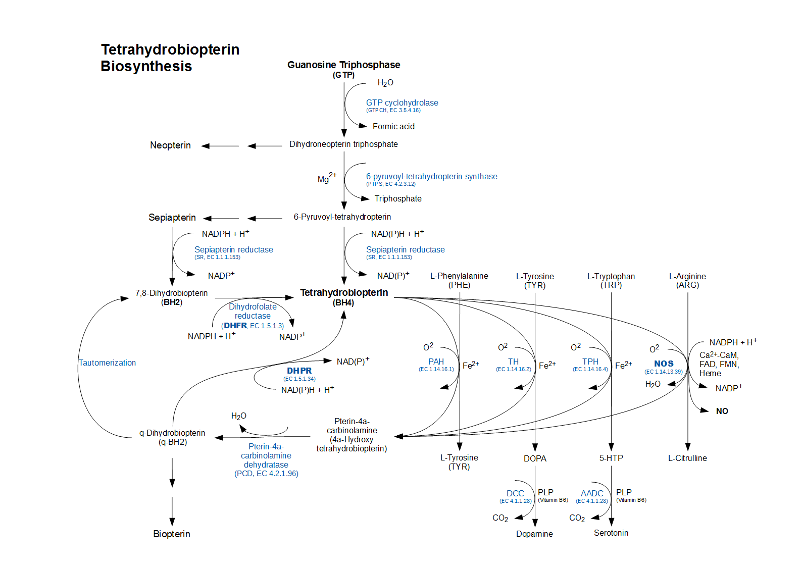 The biosysnthesis and regeneration of tetrahydrobiopterin and its recycles